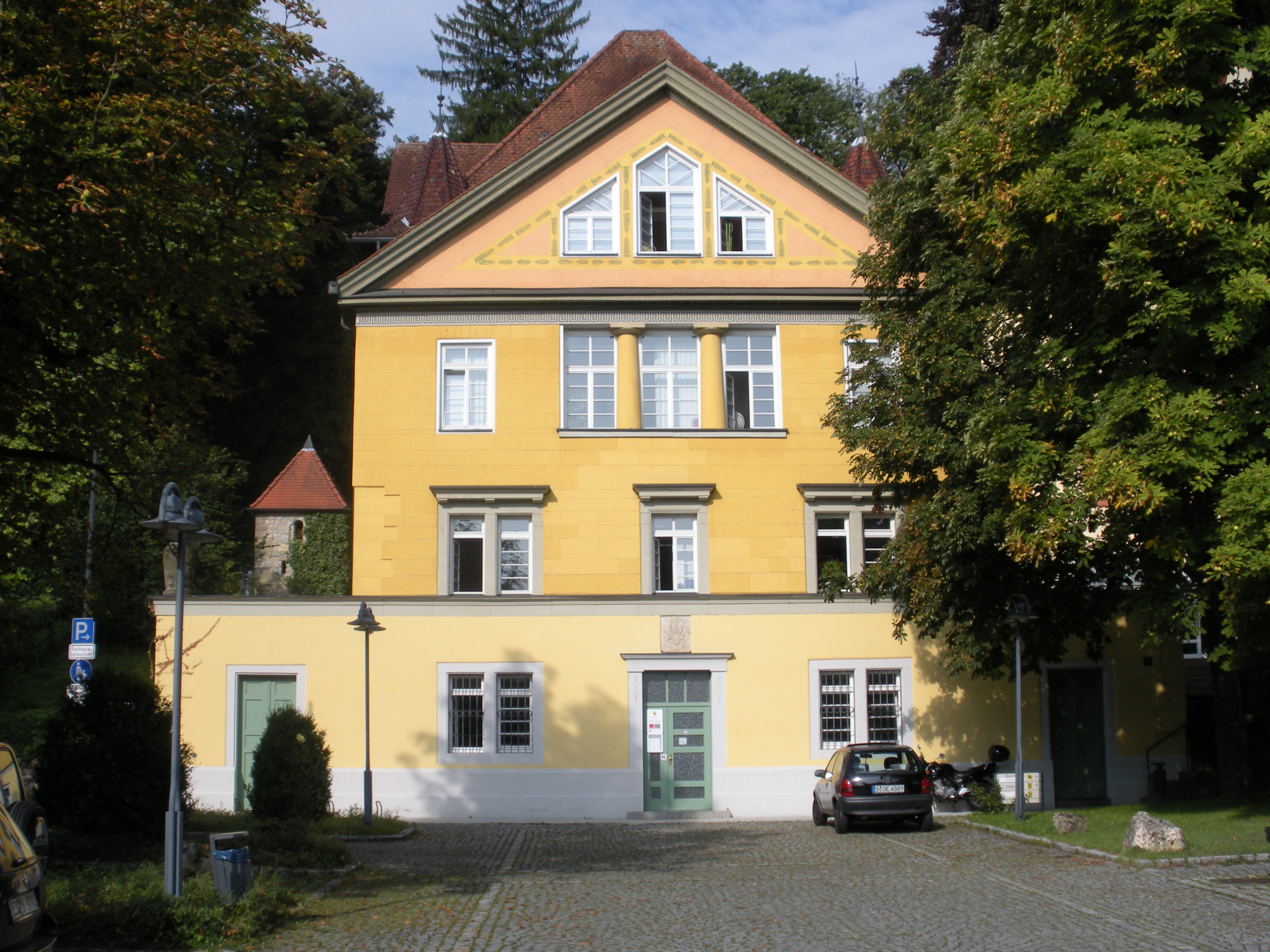 Town Hall of Stuttgart-Mühlhausen